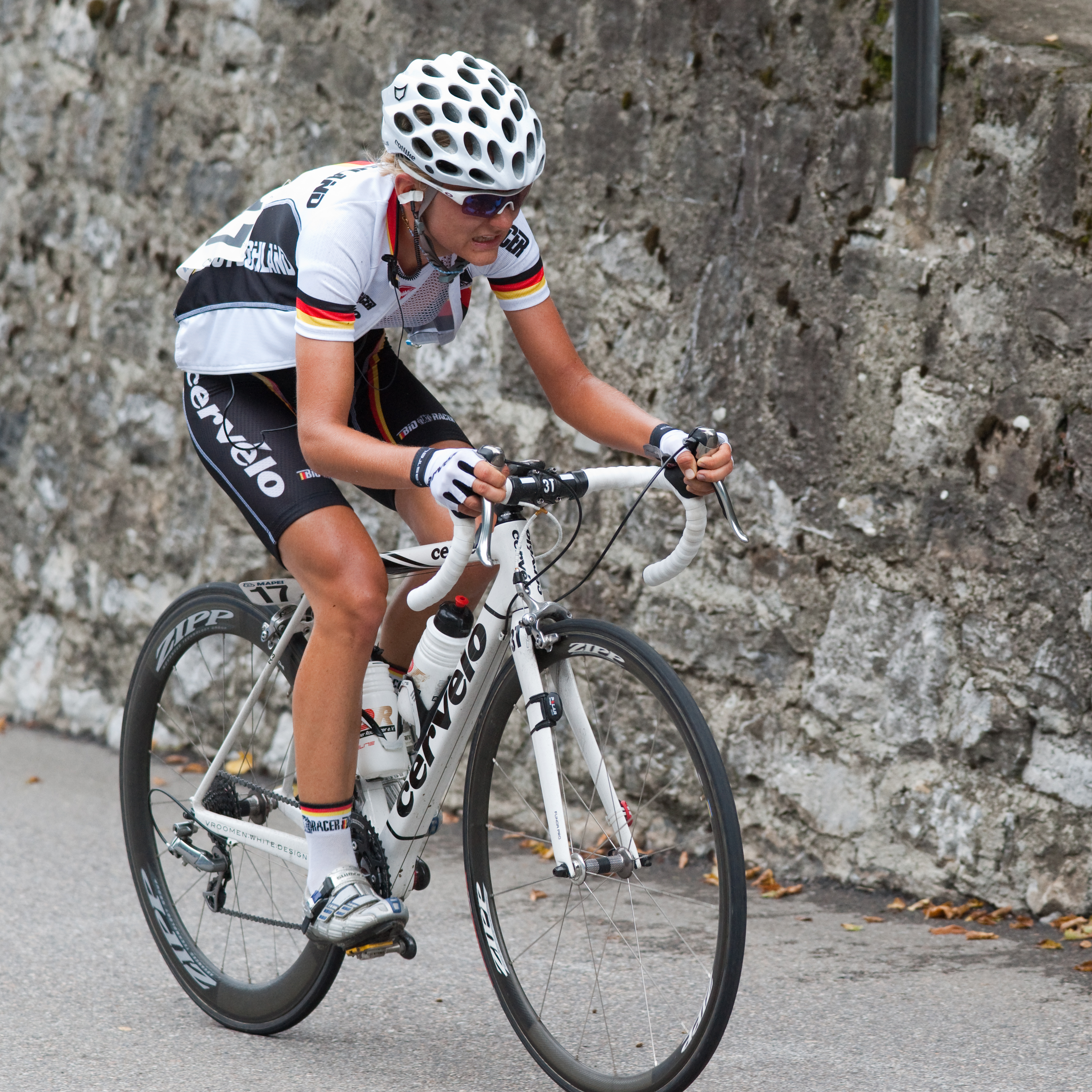 Claudia Häusler during the 2009 UCI Road Cycling Championships in Mendrisio, Switzerland.